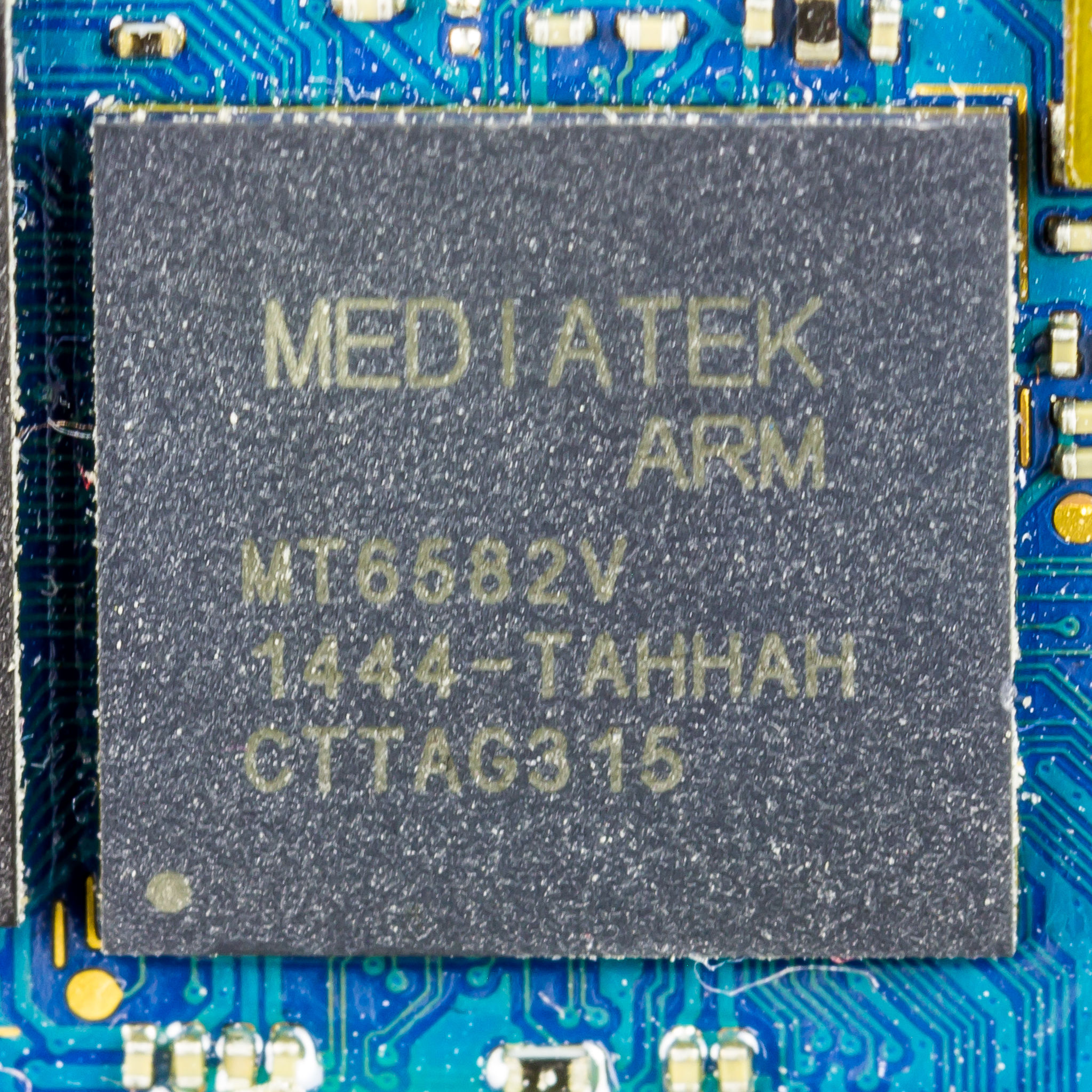 Wiko Rainbow 4G - main printed circuit board - Mediatek MT6582V - HSPA+ Smartphone Application Processor. The chip integrates a Quad-core ARM® Cortex-A7 MPCoreTM operating up to 1.3GHz, an ARM® Cortex-R4 MCU and a powerful multistandard video accelerator. Package: Flip-chip CSP (FCCSP)